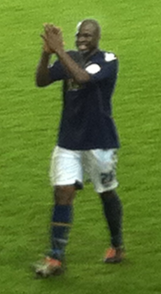 Shittu playing for Millwall against Scunthorpe, 2010.